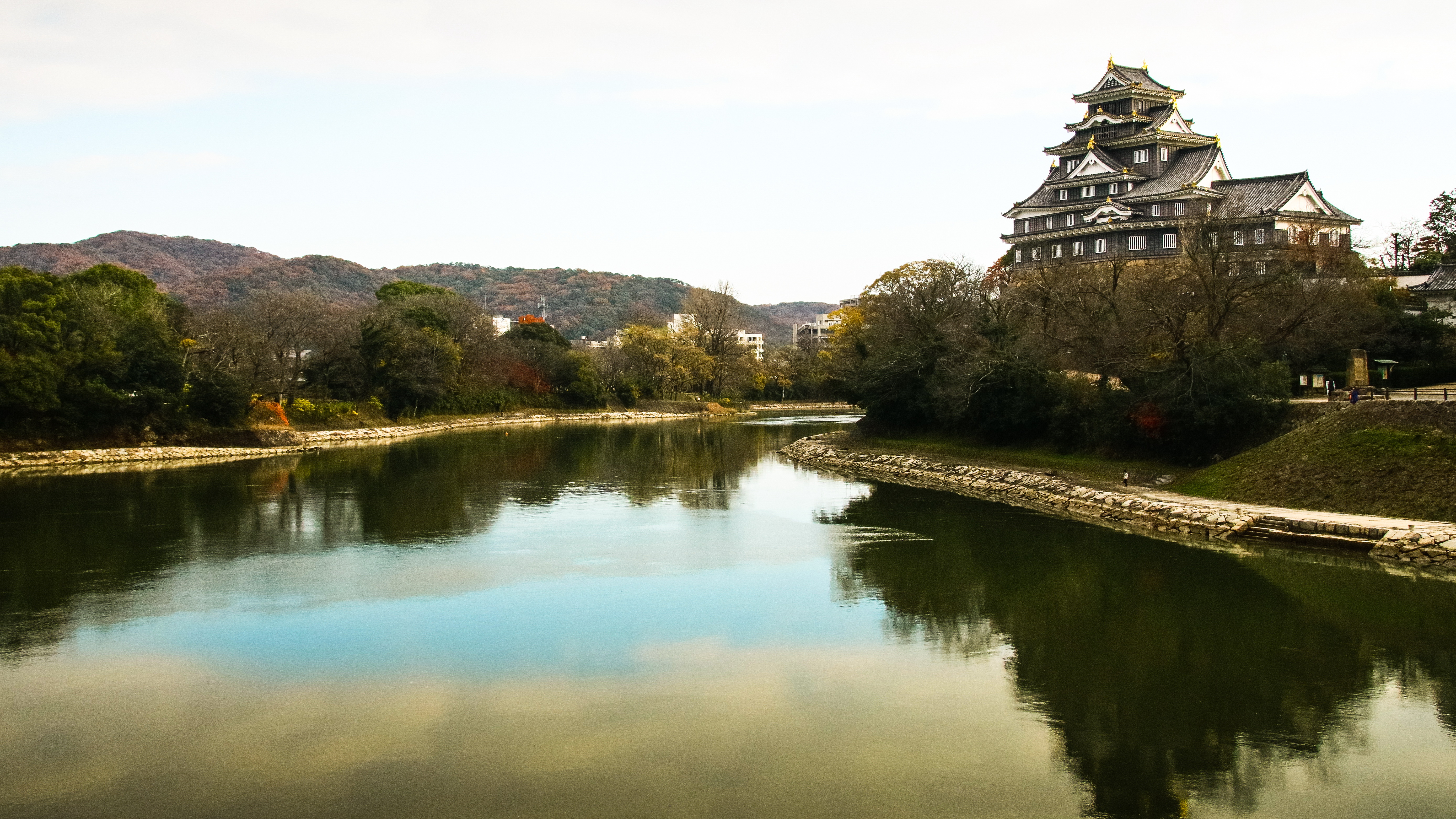 Okayama Castle, Japan.